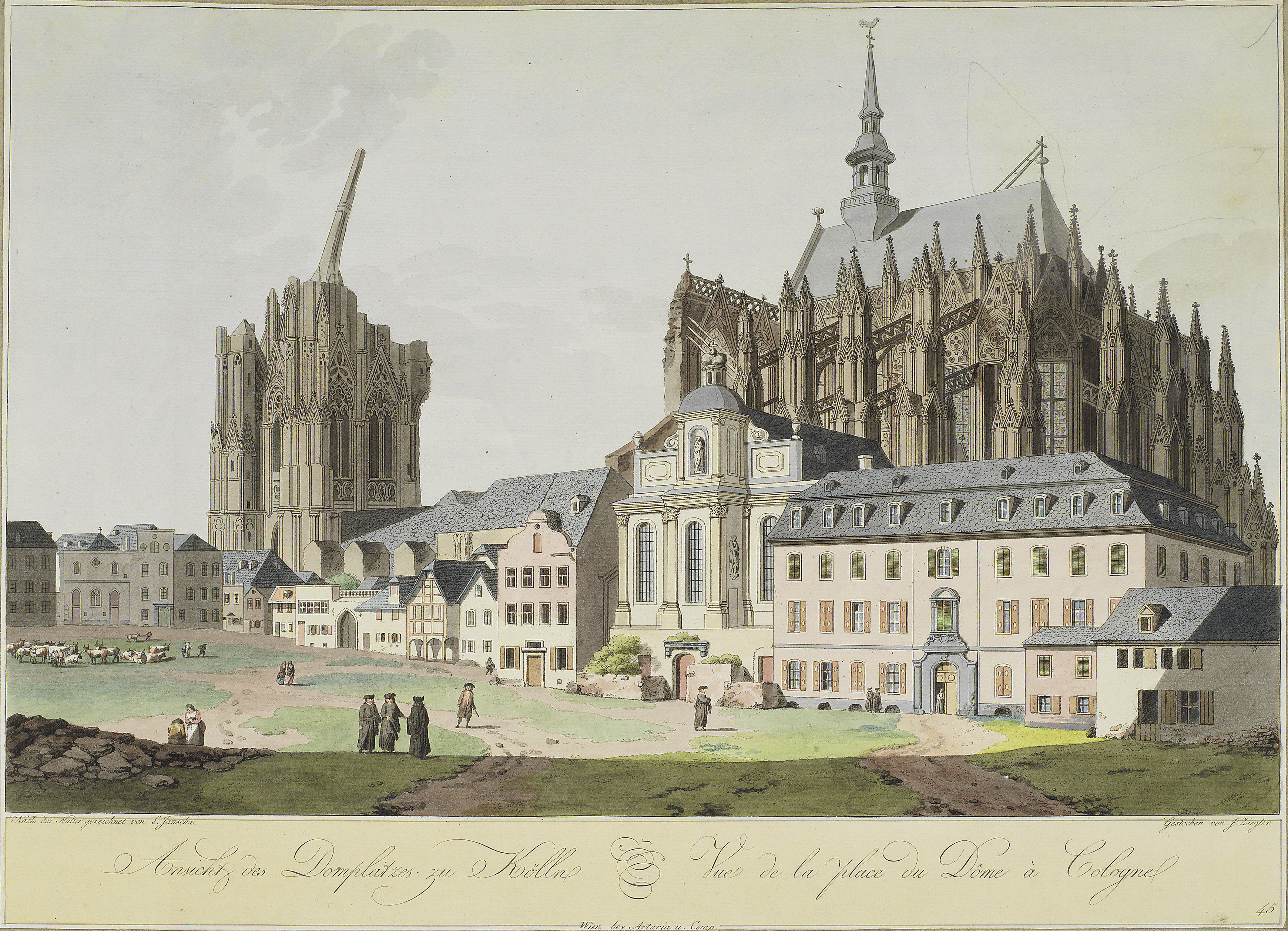 Cologne Cathedral, as seen from Southeast, around 1795. Colored copper engraving after a drawing by Lovro Janša, etched by Johann Ziegler.